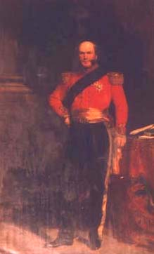 George Hay, 8th Marquess of Tweeddale (1787-1876).